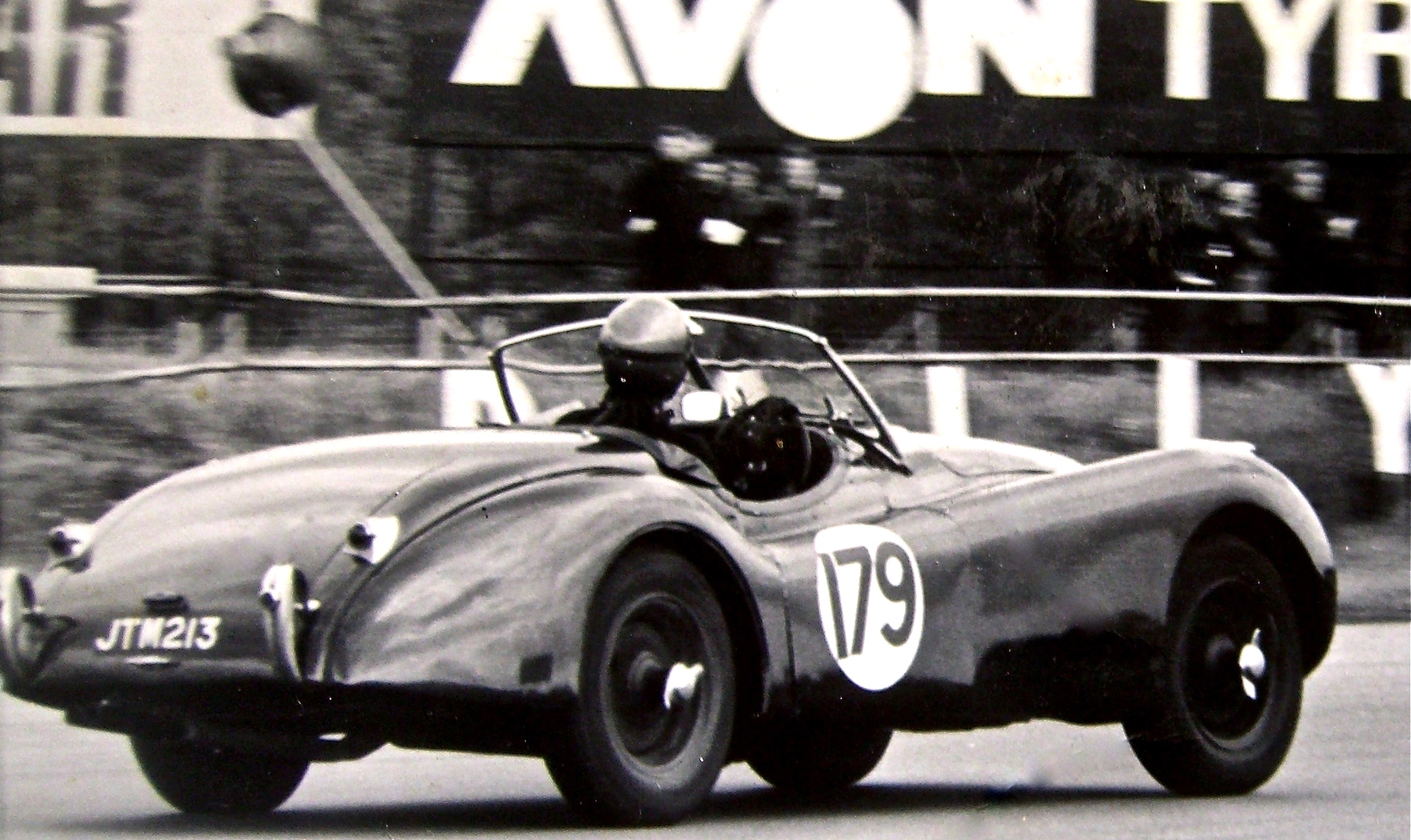 1969: Christian Maréchal in a 1951 Jaguar XK120 roadster at Silverstone.